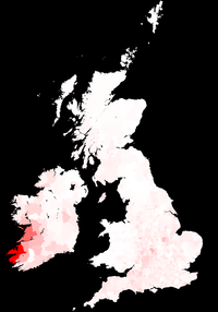 Surname distribution map for the Griffin surname in Great Britain, Ireland and the Isle of Man. I have added the copyright information of this file to